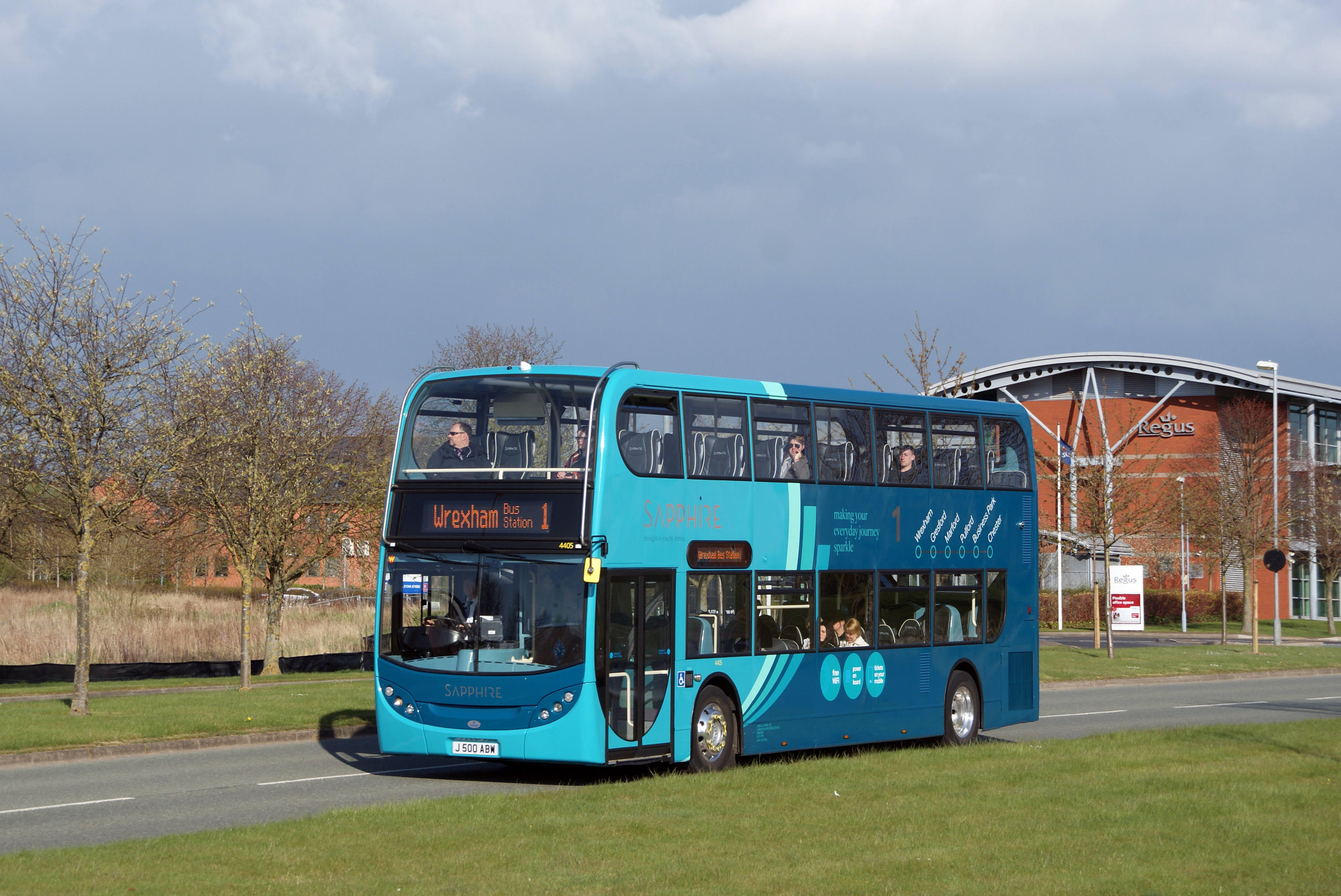 ARRIVA Cymru (ARRIVA Buses Wales), Alexander Dennis, Enviro 400, fleetnumber 4405 J500 ABW. It is operating on a Sapphire branded service 1 between Chester and Wrexham, location is Chester Business Park.